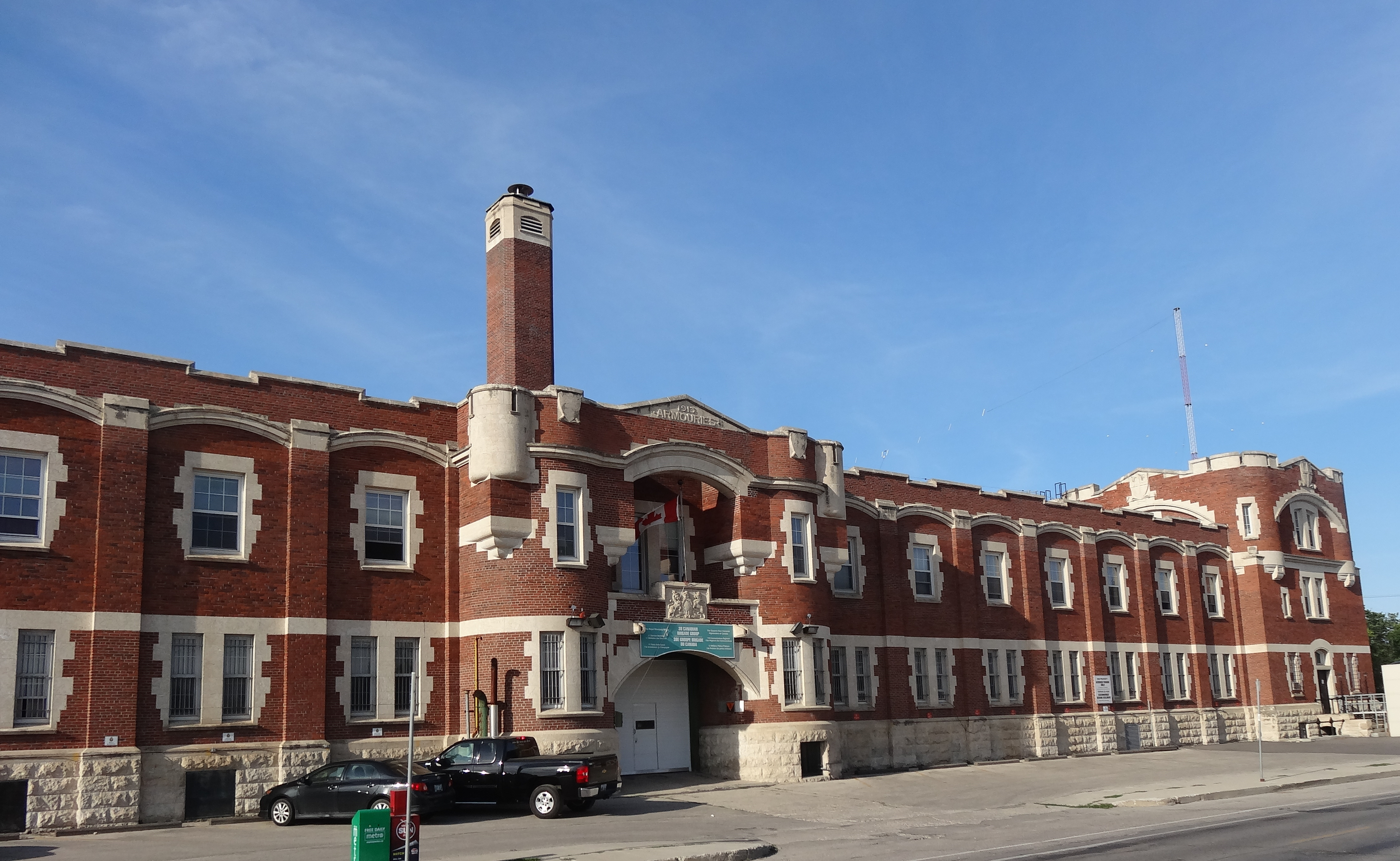 Long view of Minto Armoury